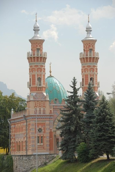 Mosque in Vladikavkaz.